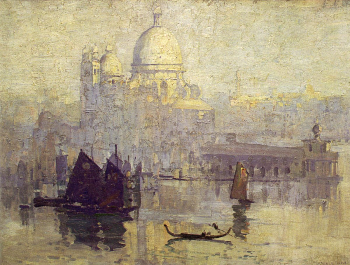 depicts the Basilica of Santa Maria della Salute in Venice.